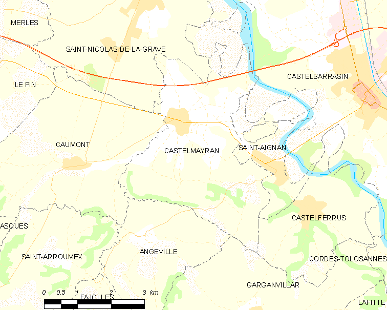 Map of French municipality Castelmayran